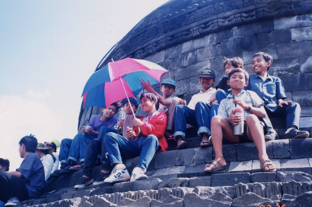 Children at Borobudur